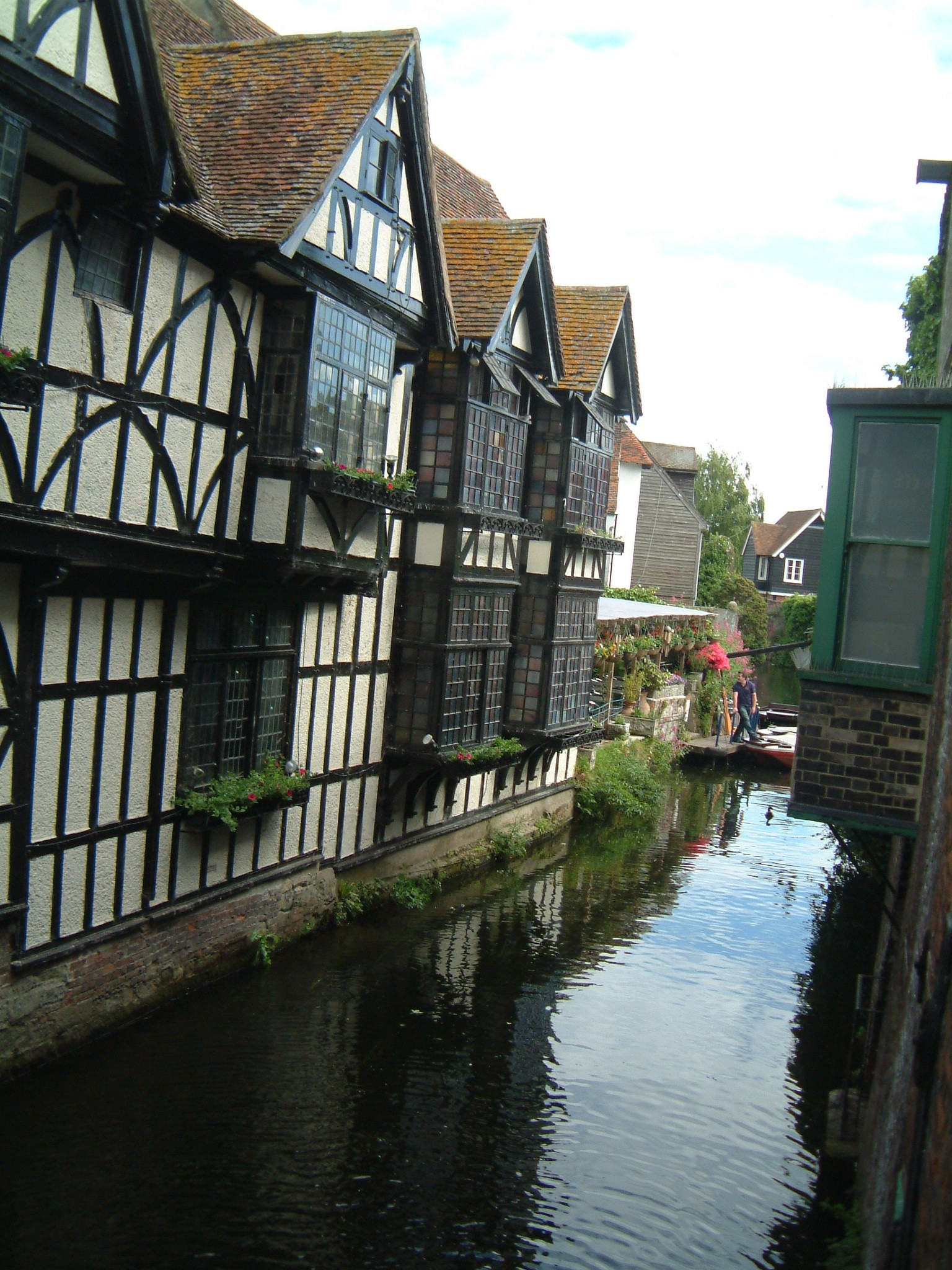 Canterbury - Little Venice at the Stour